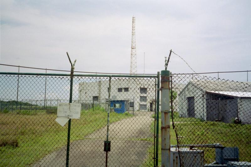 Seen in July 2005- secured area by Panamanian authorities.